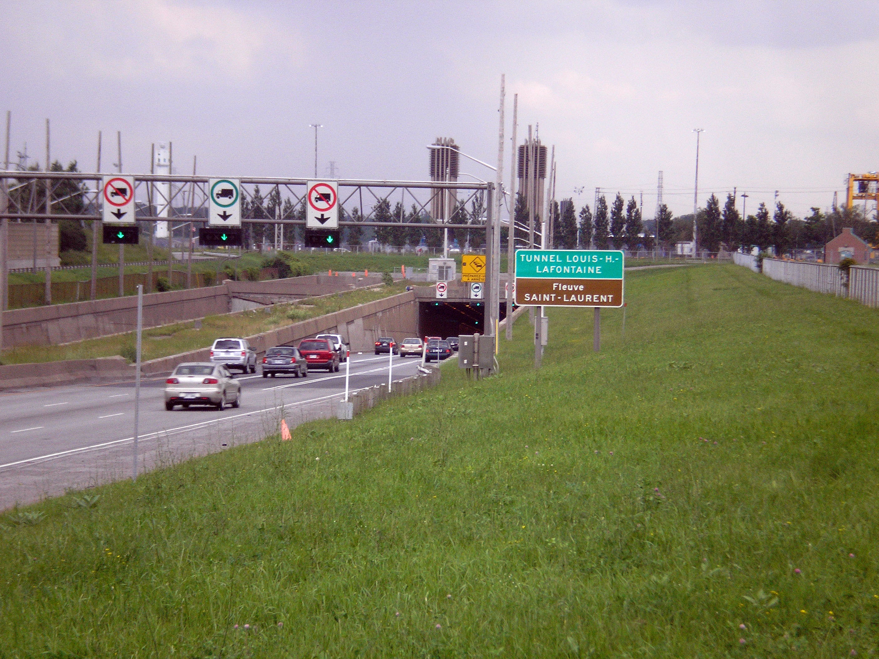 Louis H Lafontaine Tunnel, North entrance